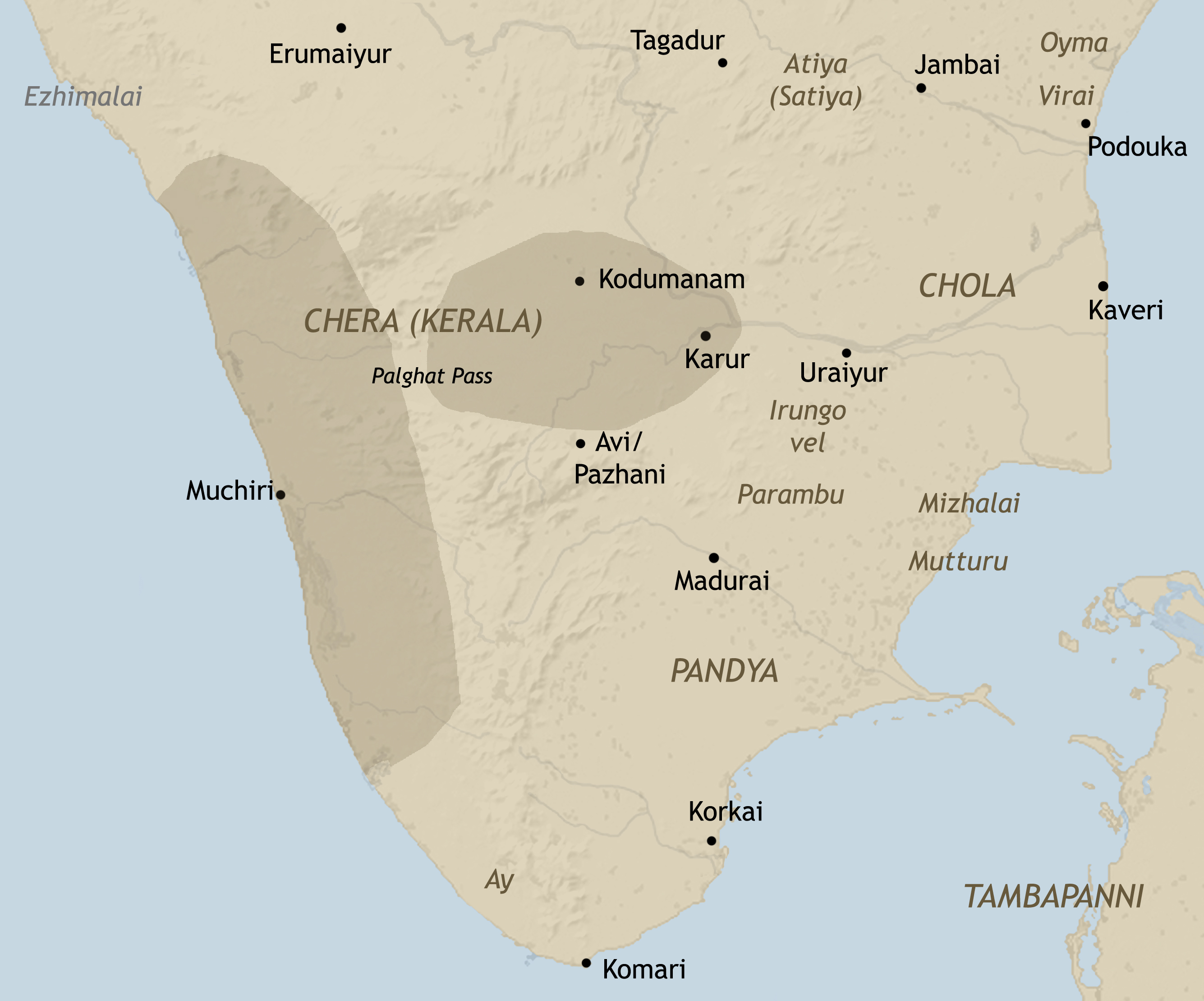 An approximate representation of the extent of Chera country in early historic south India Source: 'Antecedents of the State Formation in Early South India' by Rajan Gurukkal in State and society in pre-modern South India